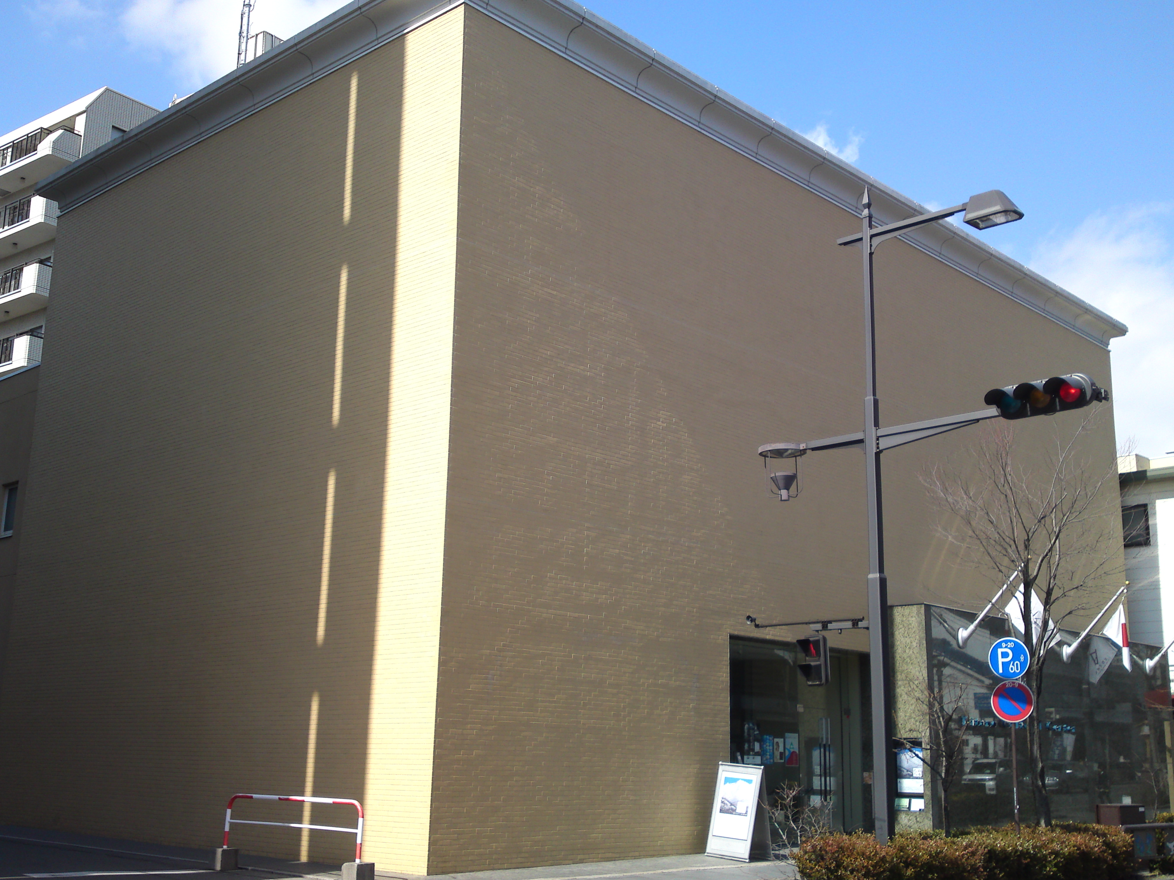 Kitano Cultural Centre (Art Museum), Nagano City, Japan